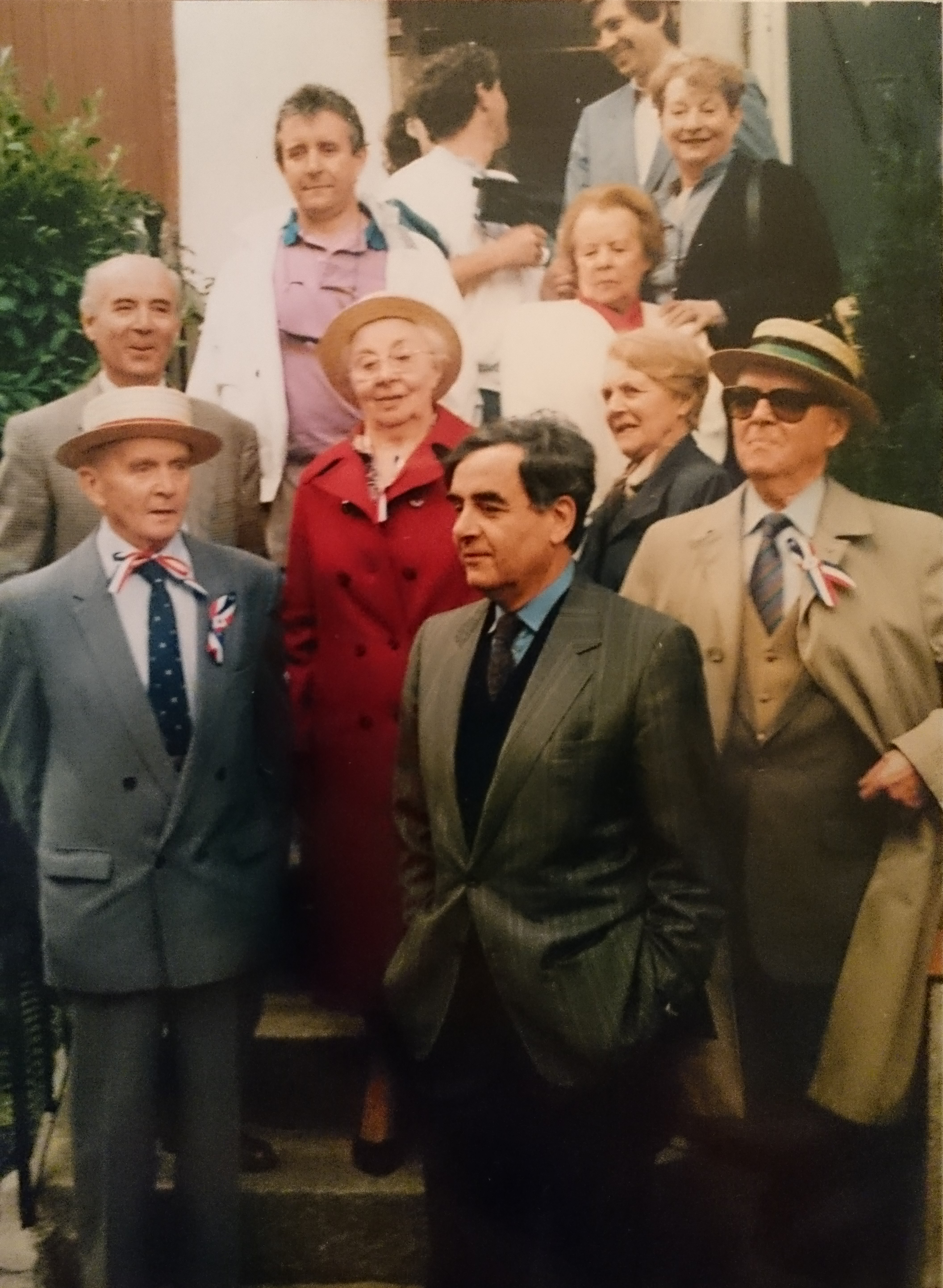 A photograph of a photograph of Bernard Pivot at a family gathering in c. the 1970s